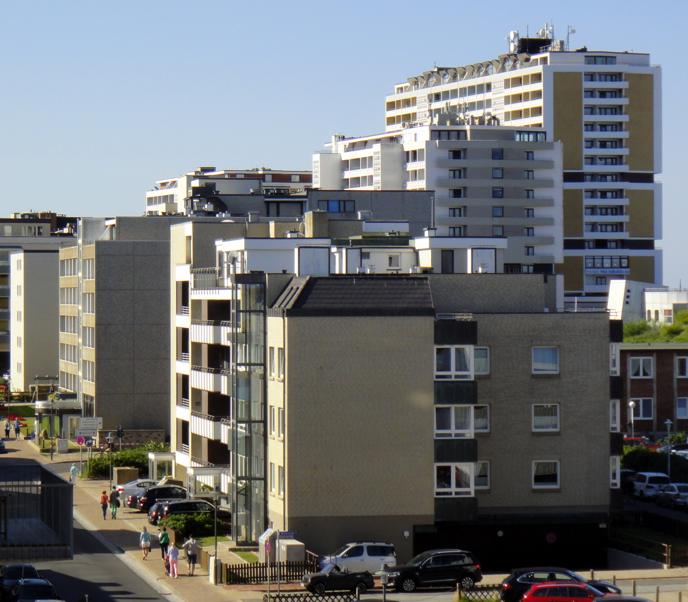 Kurzentrum Westerland in August